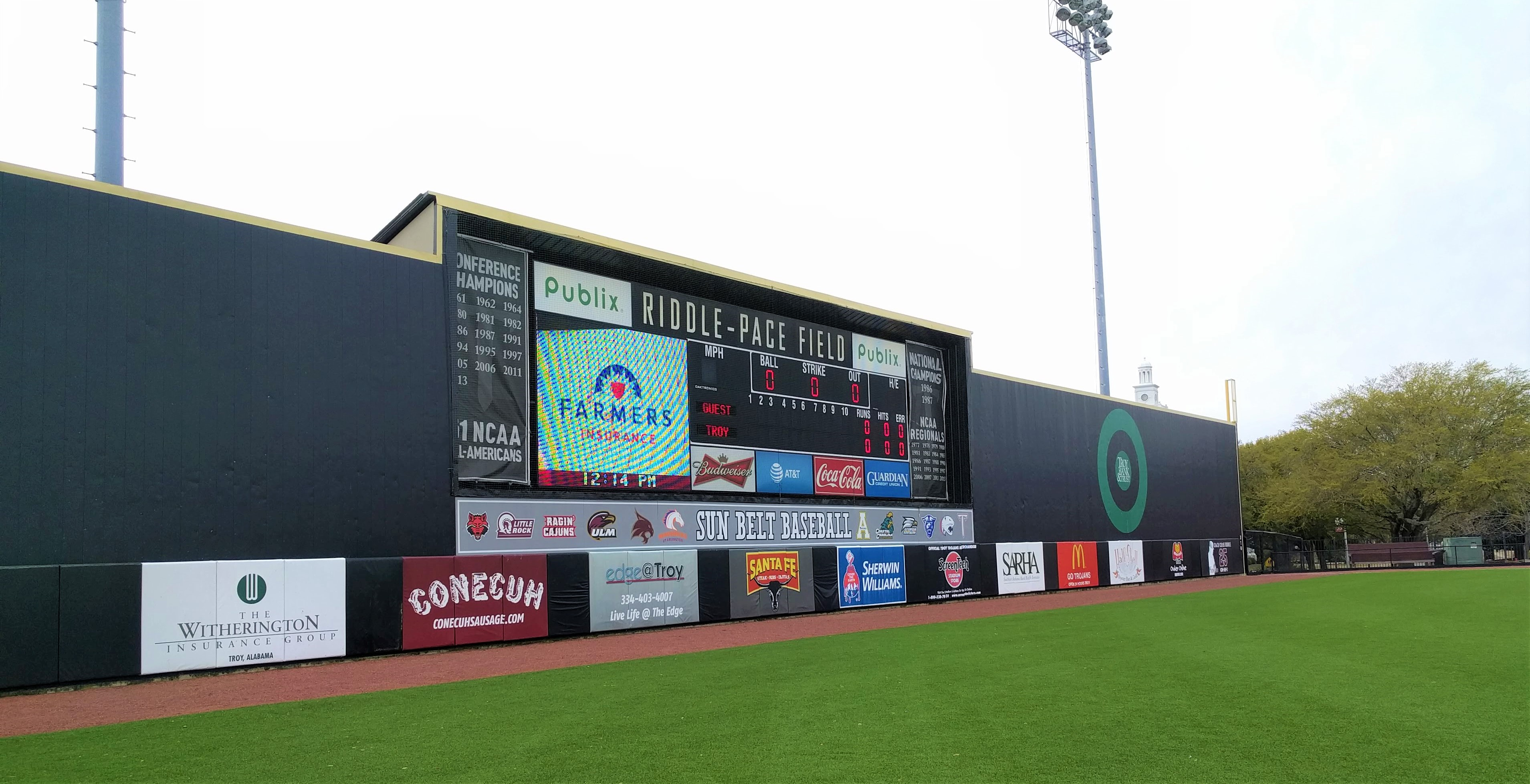 The "Black Monster" wall, as well as the video board and score board system.